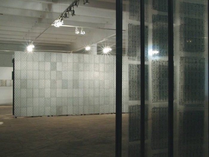 Bożenna Biskupska. Instalacja Upakowanie.